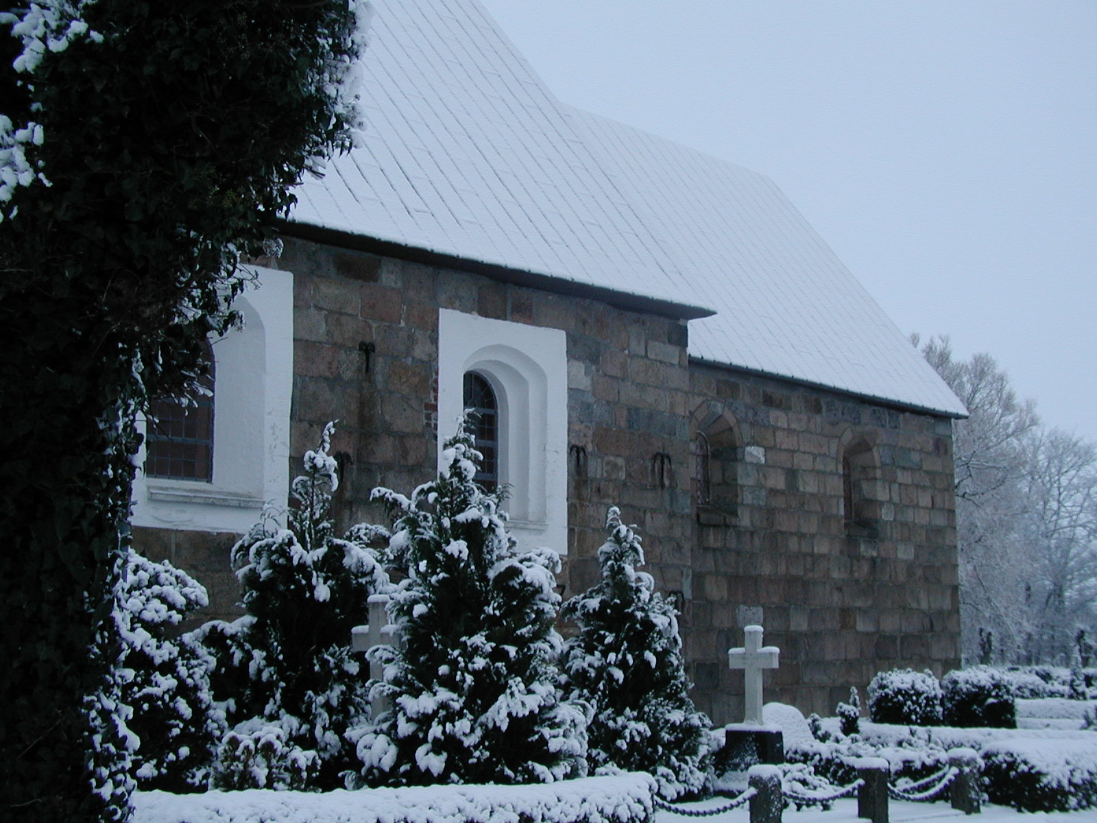 Borris church, Borris, Ringkøbing-Skjern Kommune, Denmark